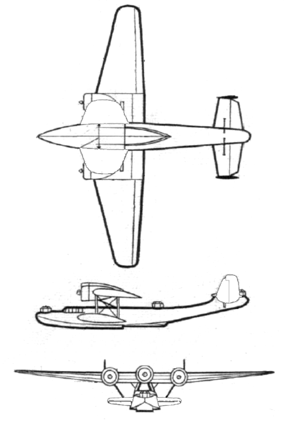 Drawings for the Dornier Do 24 flying boat.